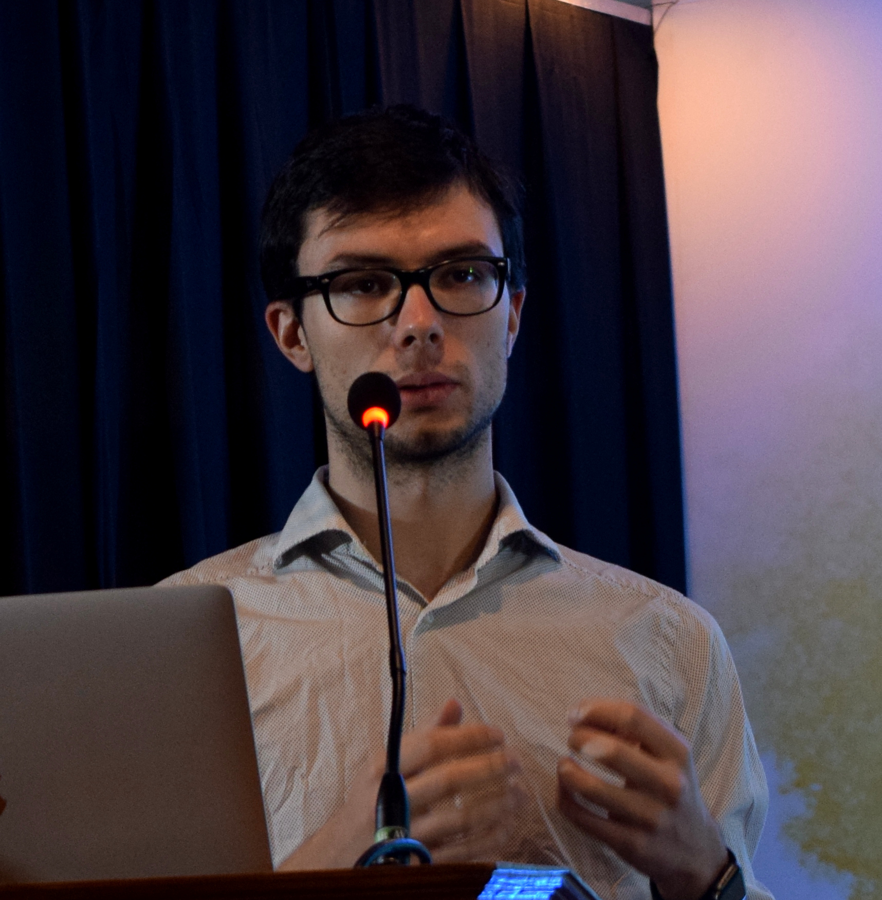 Francesco Siddi, Technical Director at Blender Institute, At Swatantra 2017 Thiruvananthapuram, Kerala, India